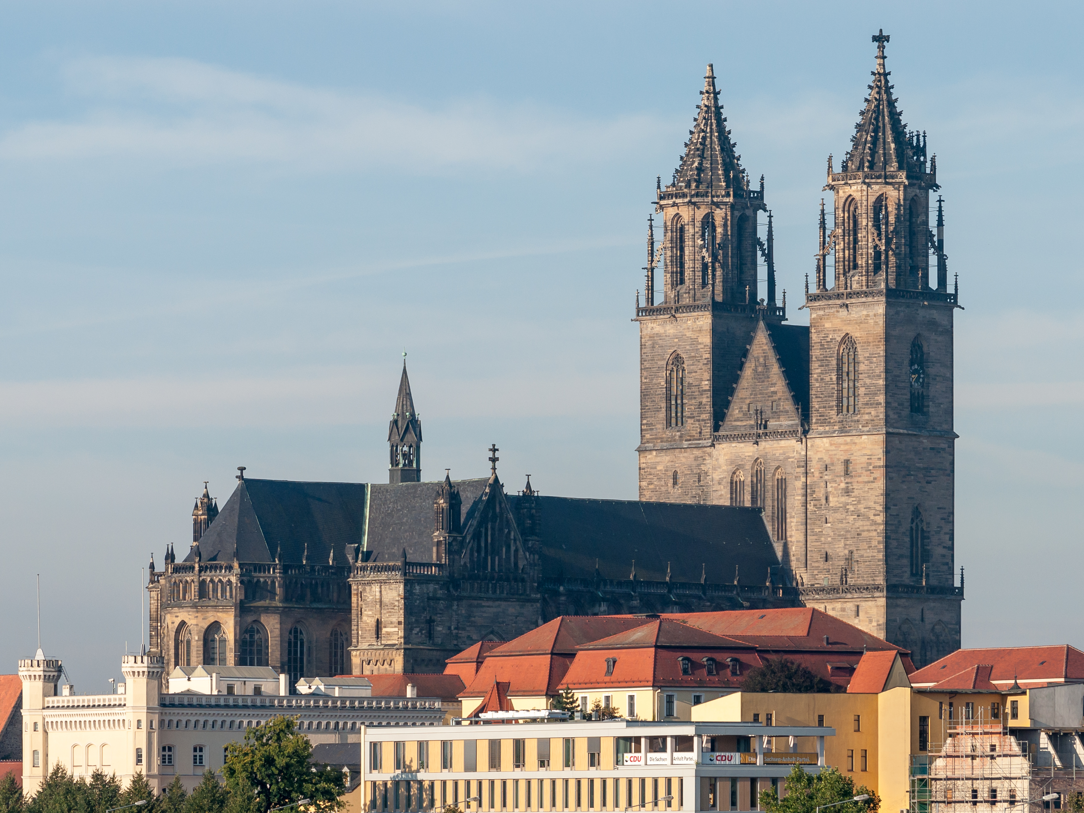 Magdeburg Cathedral seen from Neue Strombrücke. This is a photograph of an architectural monument.It is on the list of cultural monuments of Magdeburg